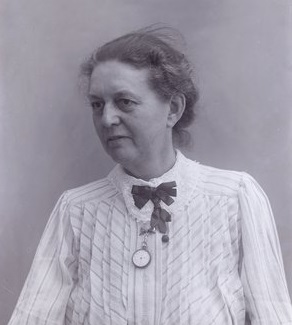 Emily Blathwayt. This picture was taken by Colonel Linley Blathwayt and was stored on glass negatives. The Blathwayt's home of Eagle House way the home of Linley, Emily and Mary Blathwayt who all actively supported the suffragette cause. Nearly all the prominient UK suffragettes stayed with them and these photos and dozens of trees were planted to commemorate their visits. Col. Linley Blathwayt took these pictures between 1908 and 1912. He died in 1919. The pictures are made available in larger formats by .